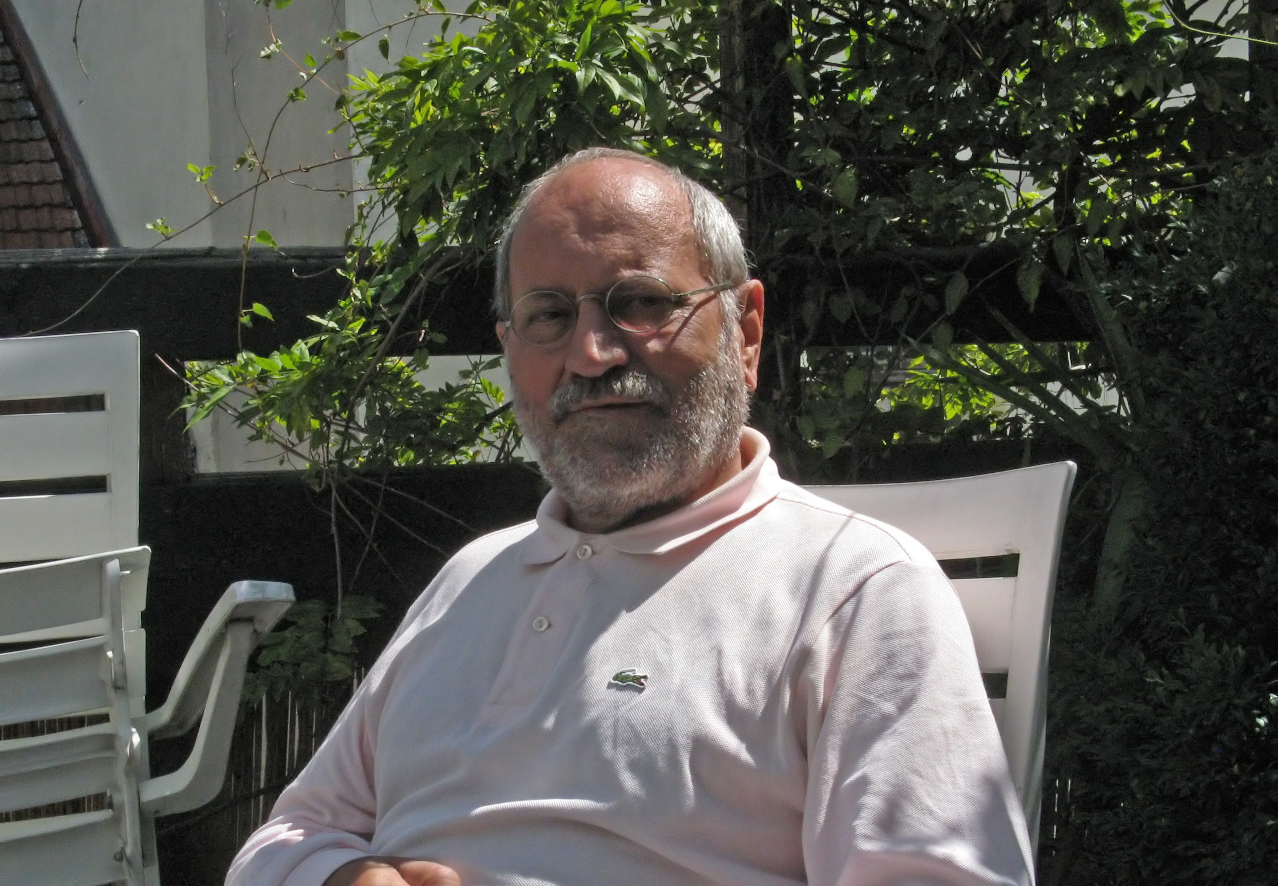 Georg Lhotsky Location: Wien, Austria Camera: Canon Powershot A 710 IS Lens: Focal Length: Exposure: 1/1250 sec, f/7,1 Film / Speed: ISO 400 Comment